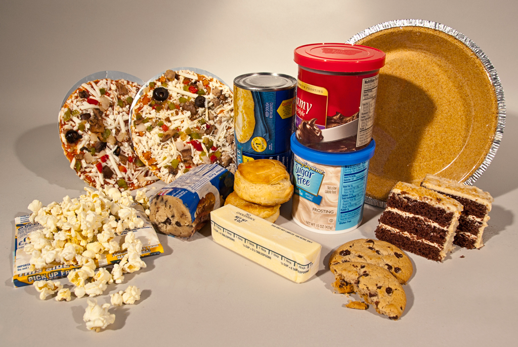 A variety of processed foods—including the frozen, canned and baked goods shown—contain trans fat. The amount per serving is listed on the Nutrition Facts label. The inclusion of partially hydrogenated oil in the list of ingredients, is another indication that trans fat is present. Binge eating disorder